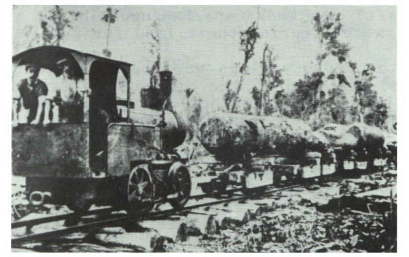 0-4-0T No 3 of J. Trounson at Tutamoe (Upper Awakino Valley) 1911-14, built by Gibbons & Harris, Auckland, 1905